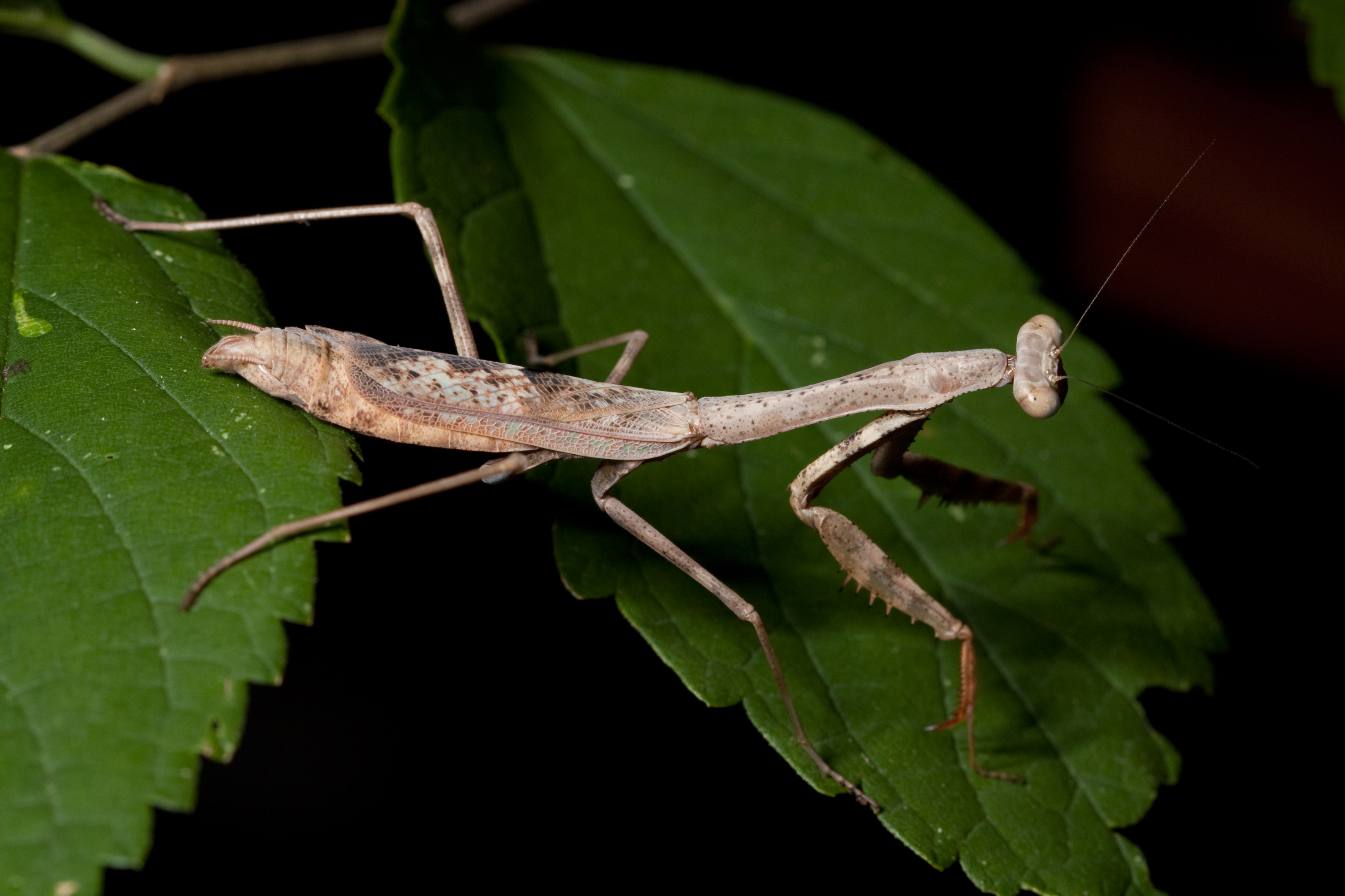 Adult female Carolina mantis found at Shelby Park in Nashville, Tennessee